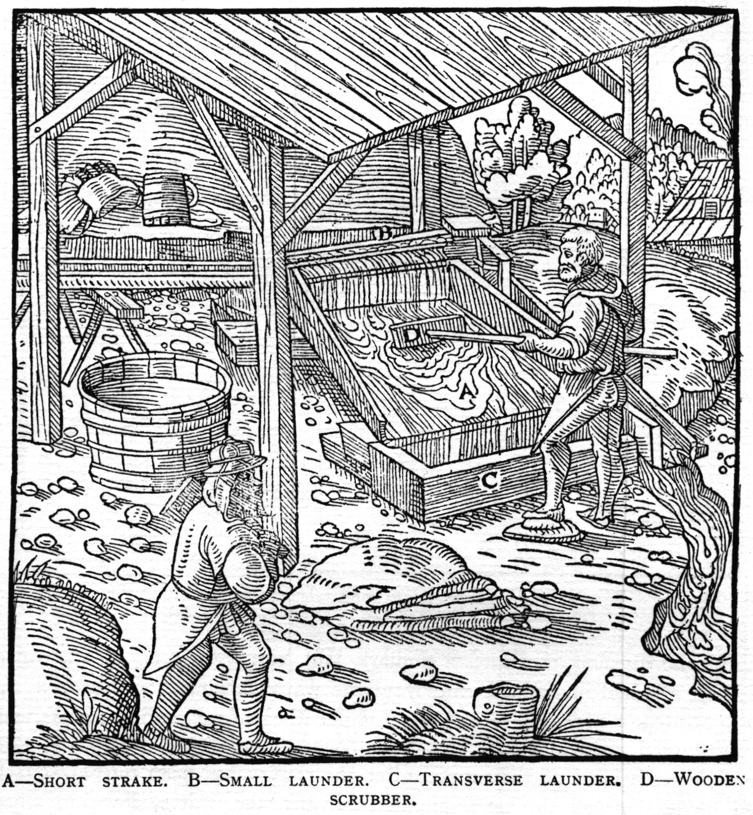 Woodcut illustration from De re metallica by Georgius Agricola. This is a 300dpi scan from the 1950 Dover edition of the 1913 Hoover translation of the 1556 reference. The Dover edition has slightly smaller size prints than the Hoover (which is a rare book). The woodcuts were recreated for the 1913 printing. Filenames (except for the title page) indicate the chapter (2, 3, 5, etc.) followed by the sequential number of the illustration.